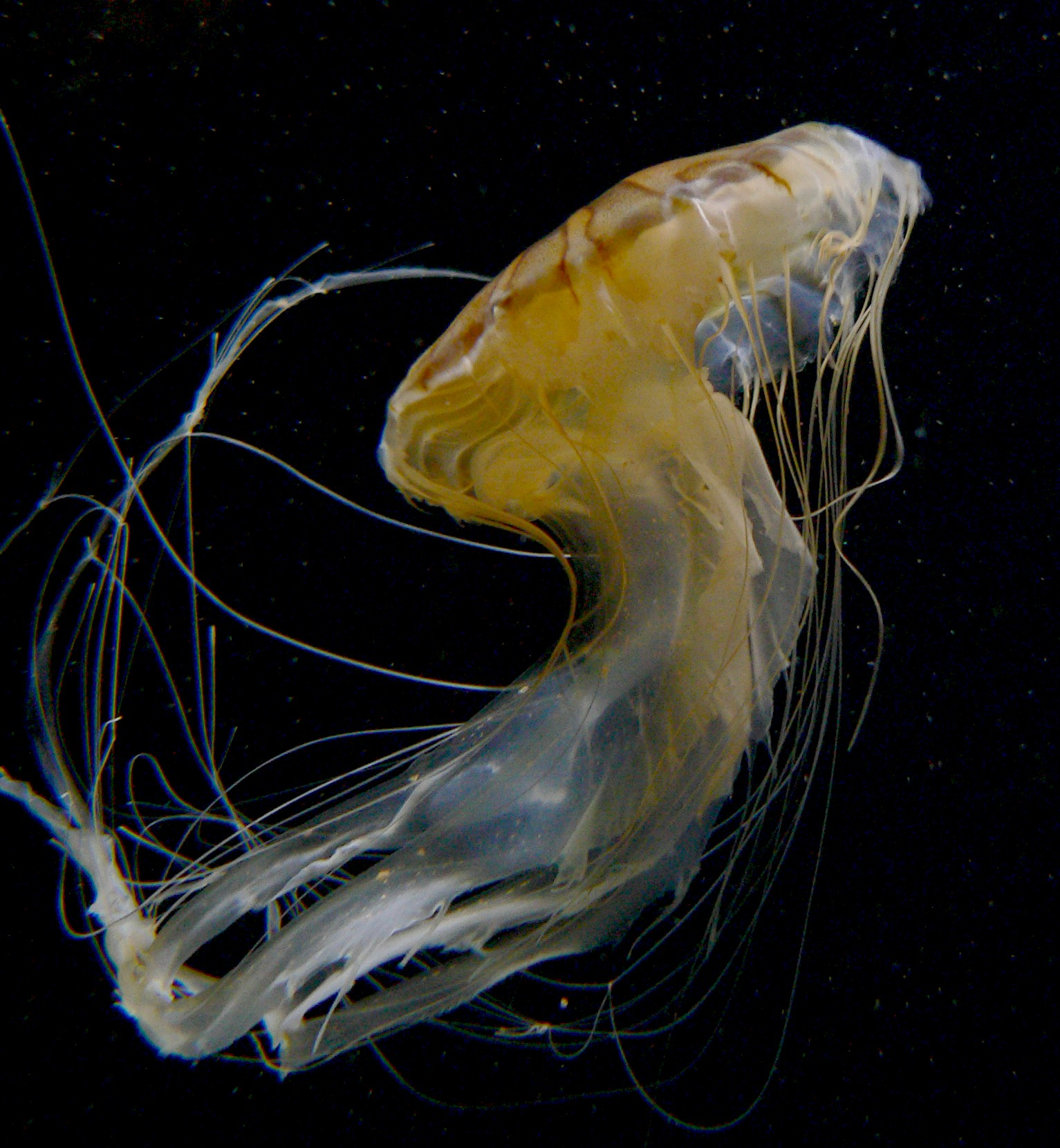 Chrysaora melanaster Jan2006 Photo taken by user Benutzer:BS Thurner Hof